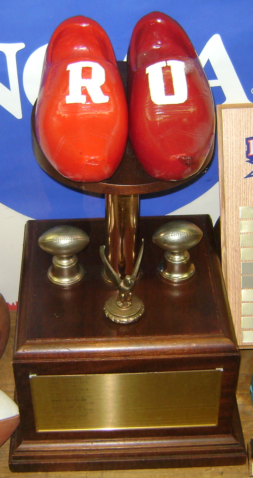 The Dutchman's Shoes trophy on display at the '87 Gym at Rensselaer Polytechnic Institute